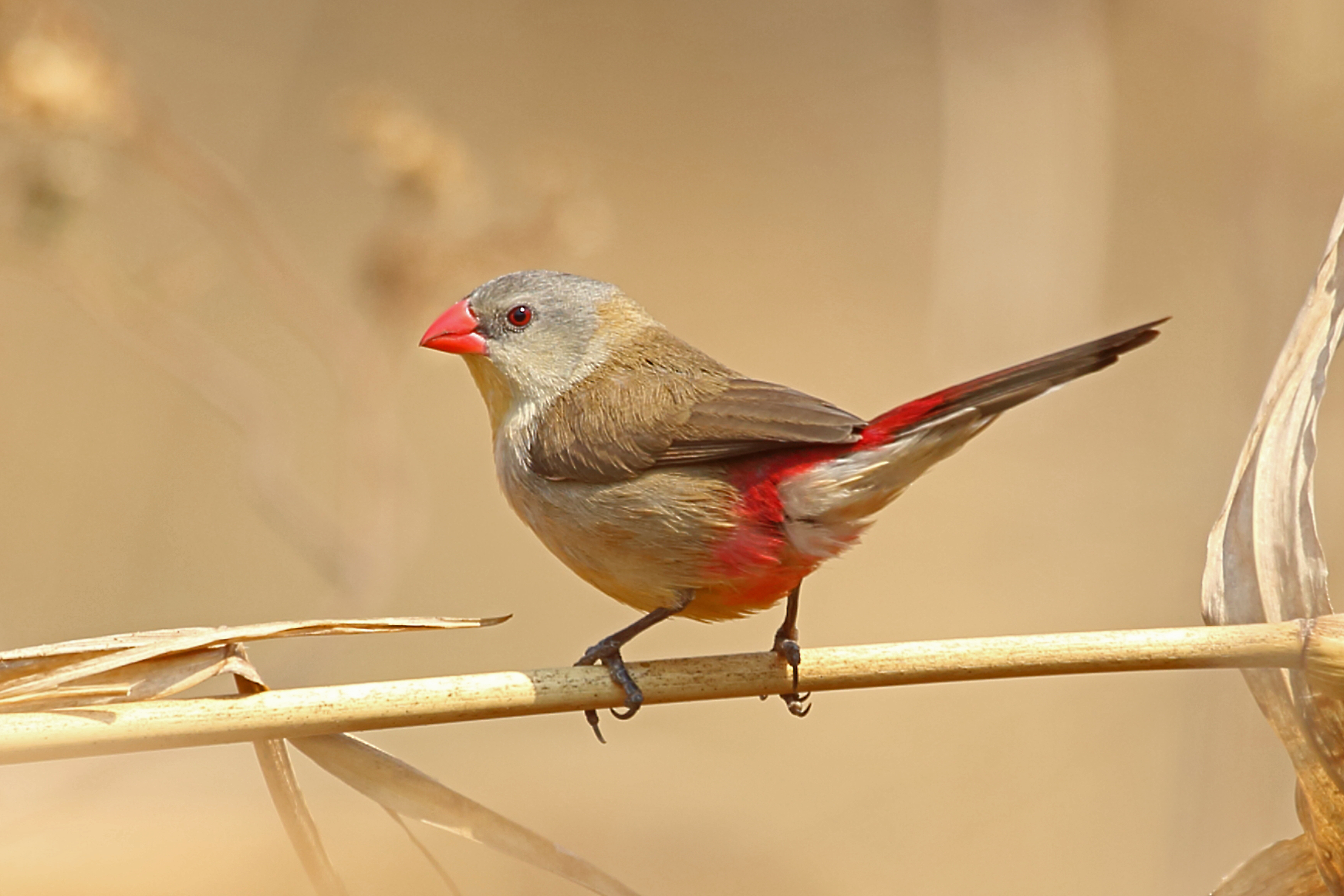 Fawn-breasted Waxbill, Sakania, DRC